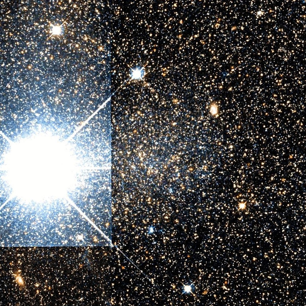 Andromeda IV (PGC 2544) dwarf galaxy by Hubble space telescope. Star to the left is TYC 2801-551-1 with apparent magnitude 10.3